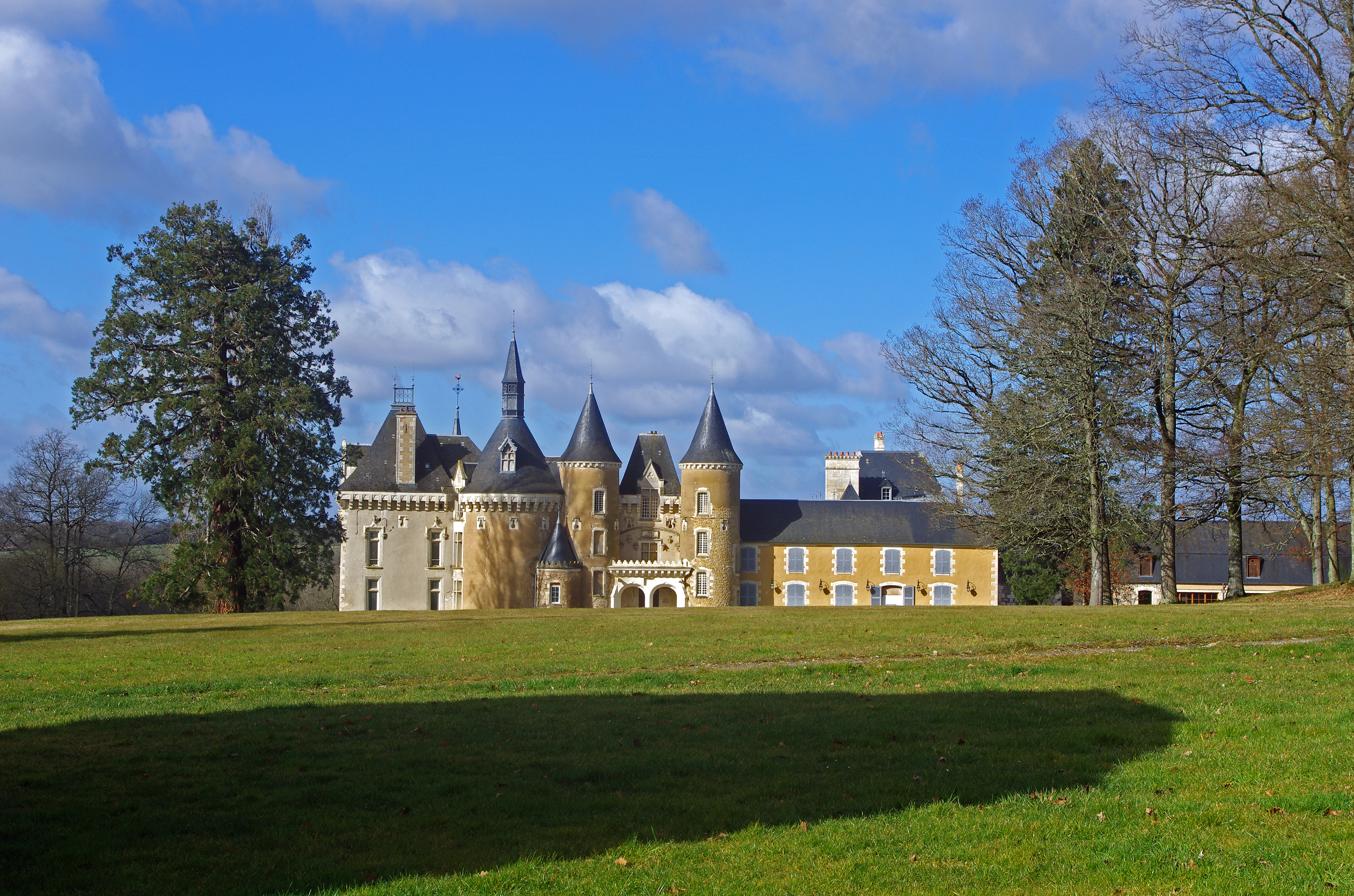 Castle of Le Magnet (or Magnié), cited by George Sand in her article La Vallée-Noire (The Black Valley)